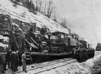 Railway accident near Altenbeken at 20th of December, 1901. There died 12 persons, 27 had been hurt verletzt. See here!